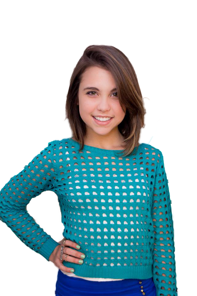 Bruna Carvalho